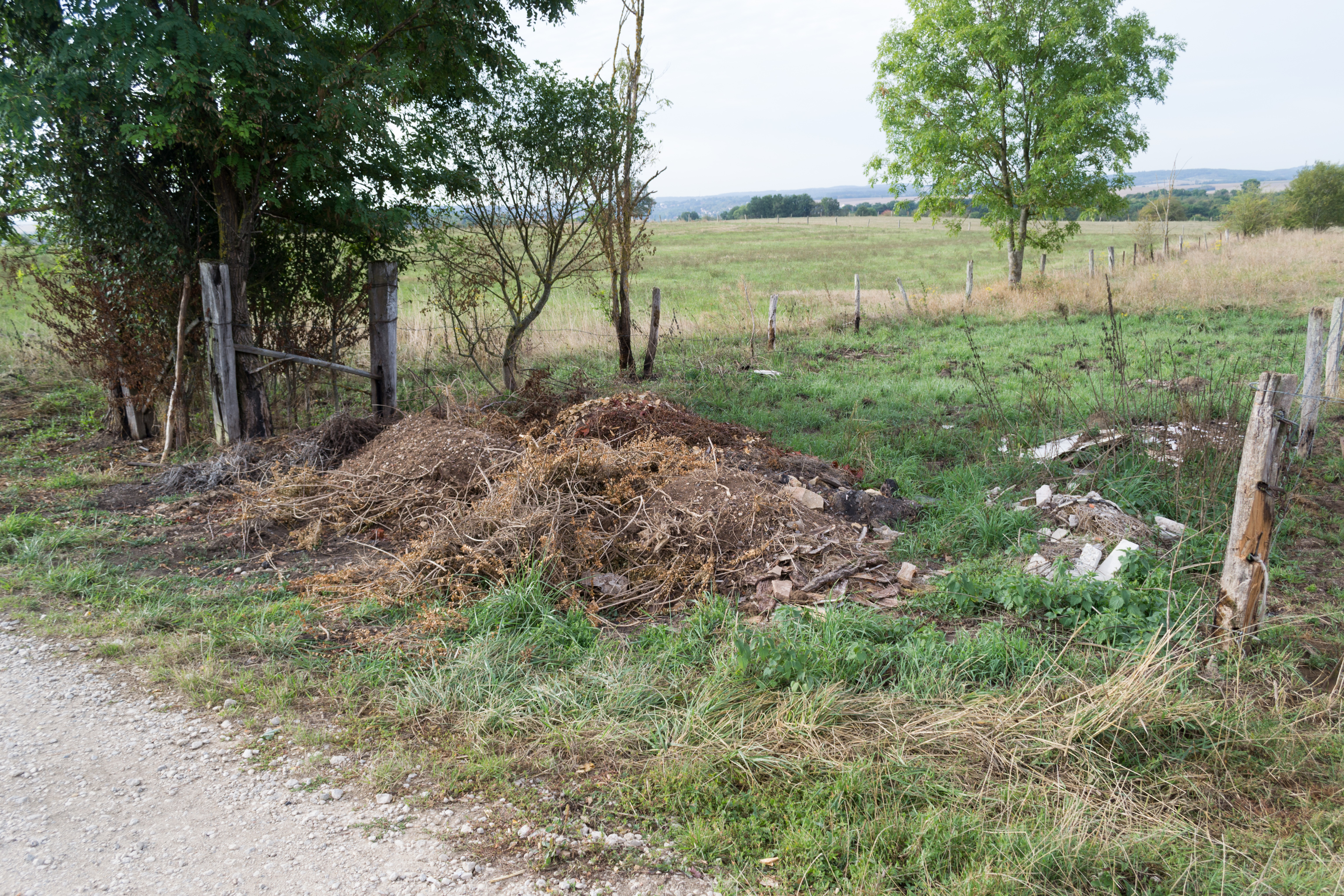 Green waste dumping on a private lot, on the side of a track